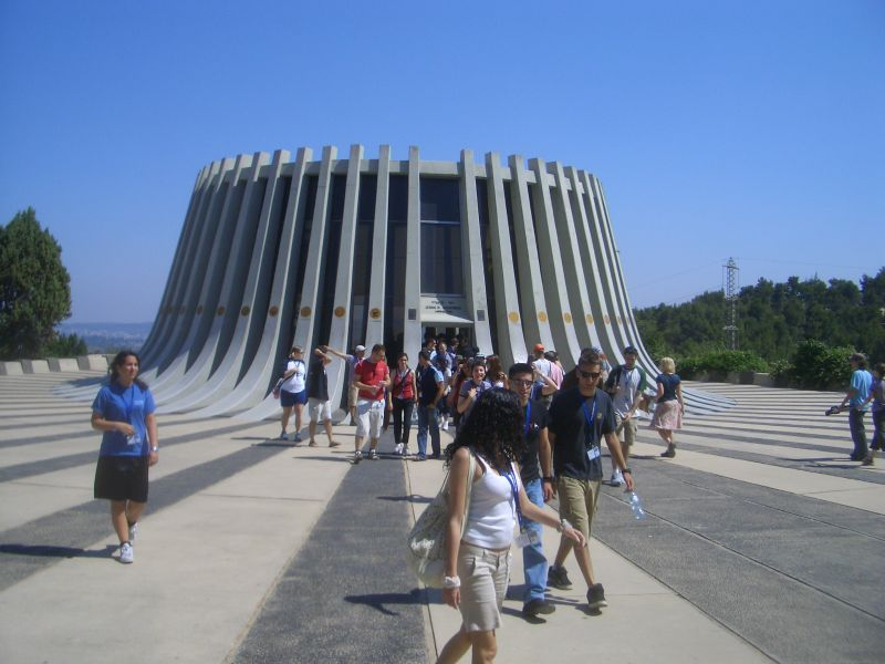 JFK Memorial in Israel